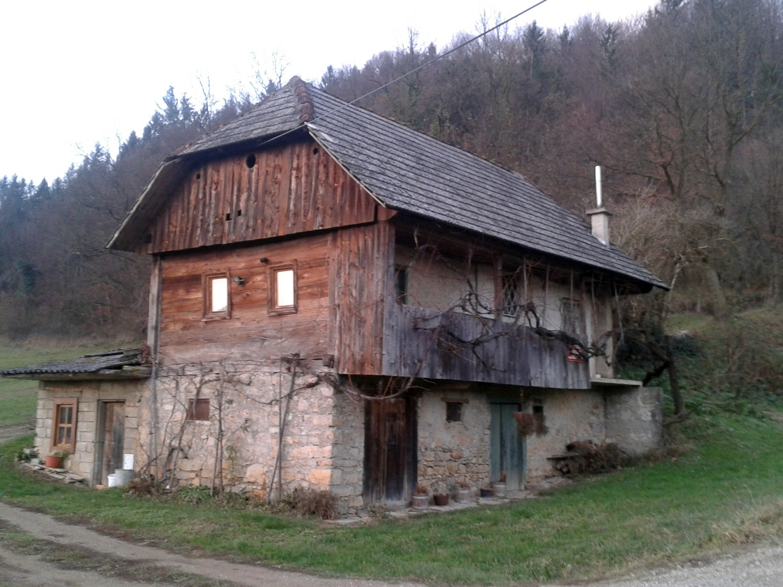 An old house in Ostrožnik (Municipality of Mokronog–Trebelno), southeastern Slovenia.